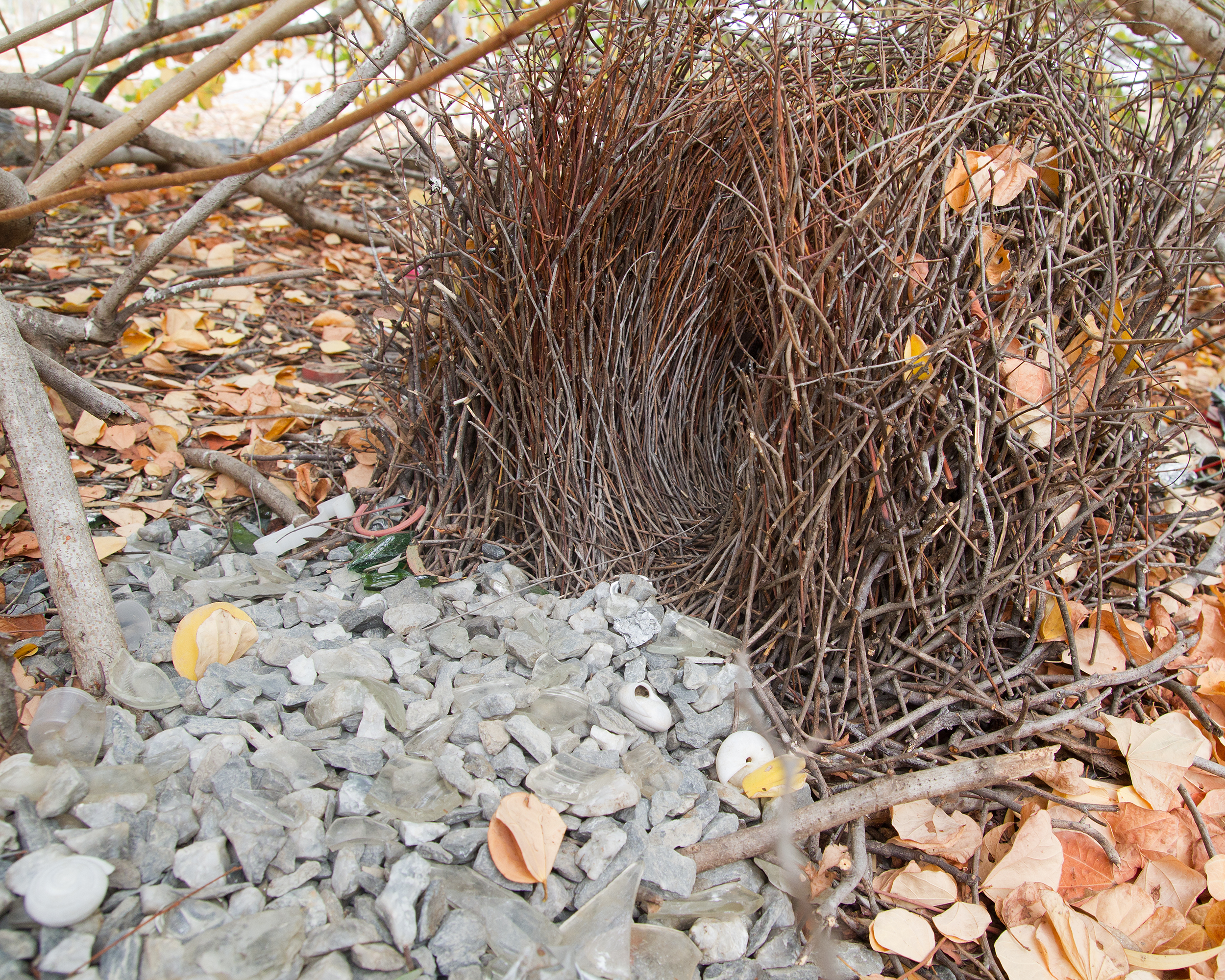 Great Bowerbird (Chlamydera nuchalis) bower, Mount Carbine, Queensland, Australia